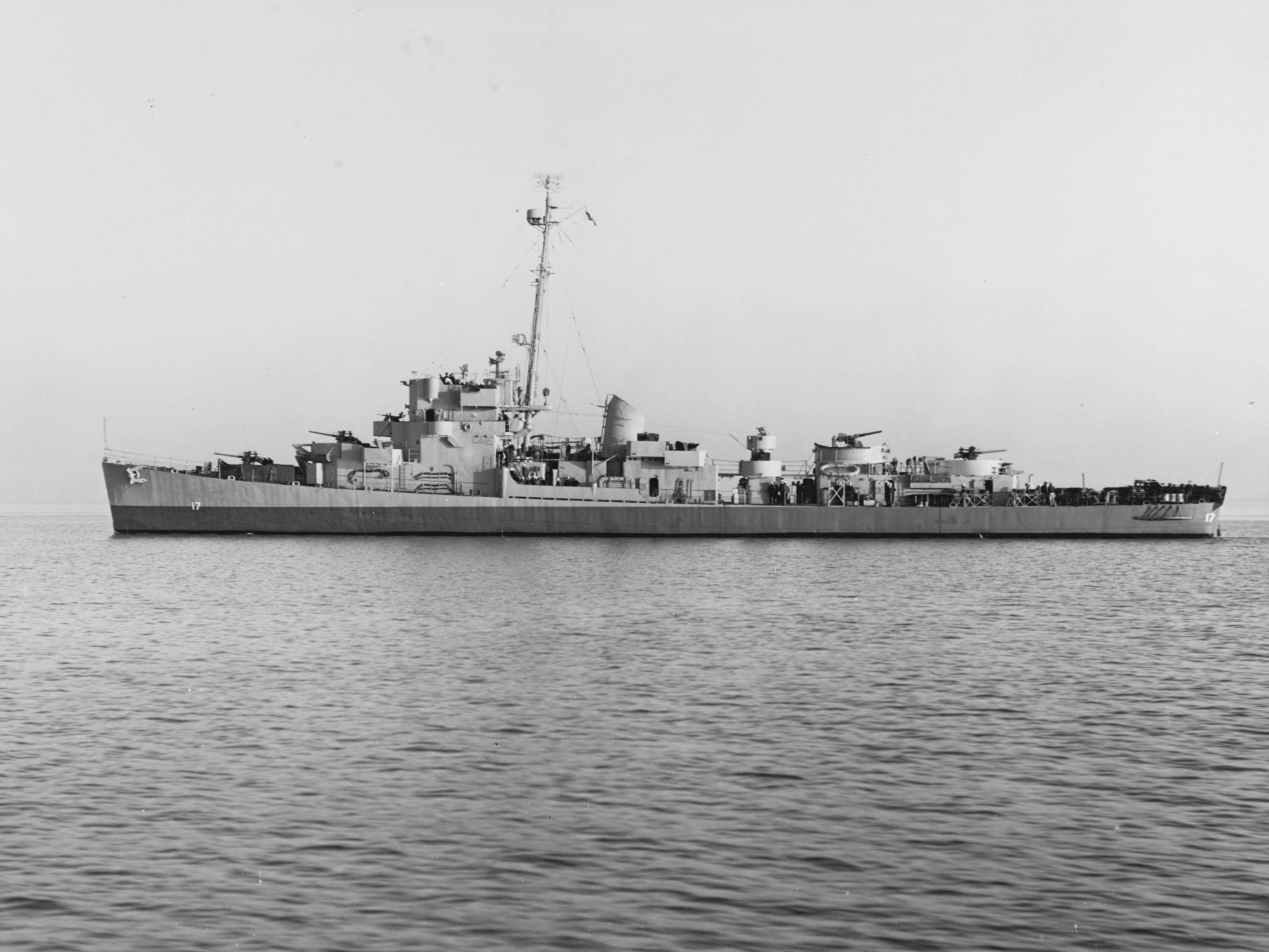 The U.S. Navy destroyer escort USS Edward C. Daly (DE-17) off the Mare Island Naval Shipyard, California (USA), 26 February 1945. She was in overhaul at Mare Island from 19 January until 3 March 1945. The ship is painted in Camouflage Measure 22.